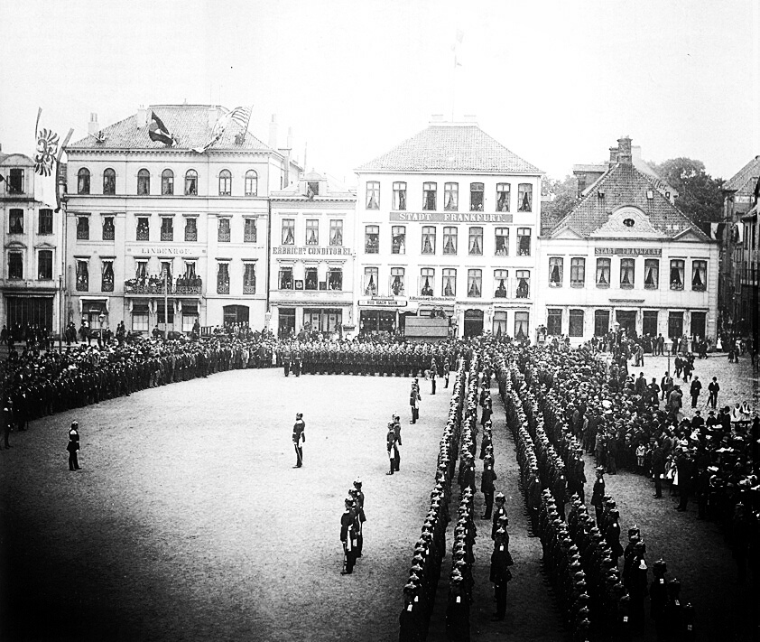 Roll call of the 1. Hanseatischen Infanterie-Regiments Nr. 75 (“First hanseatic infantry regiment No. 75”) on the Domshof square in Bremen (Germany) on occasion of the 25th anniversary of its formation.